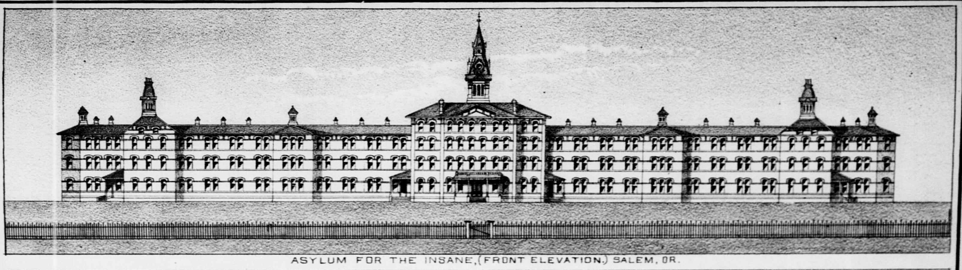 The Oregon State Insane Asylum from the January 1, 1882 edition of The West Shore